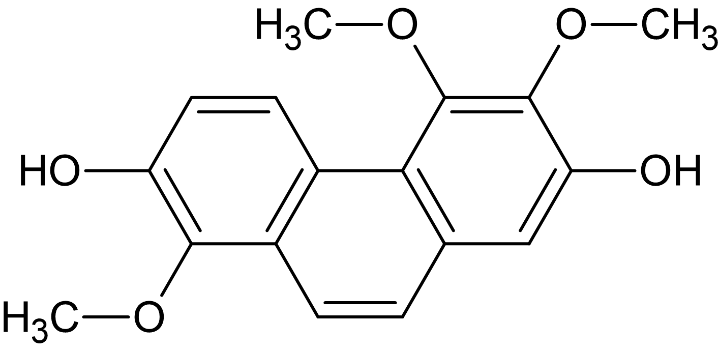 Chemical structure of confusarin